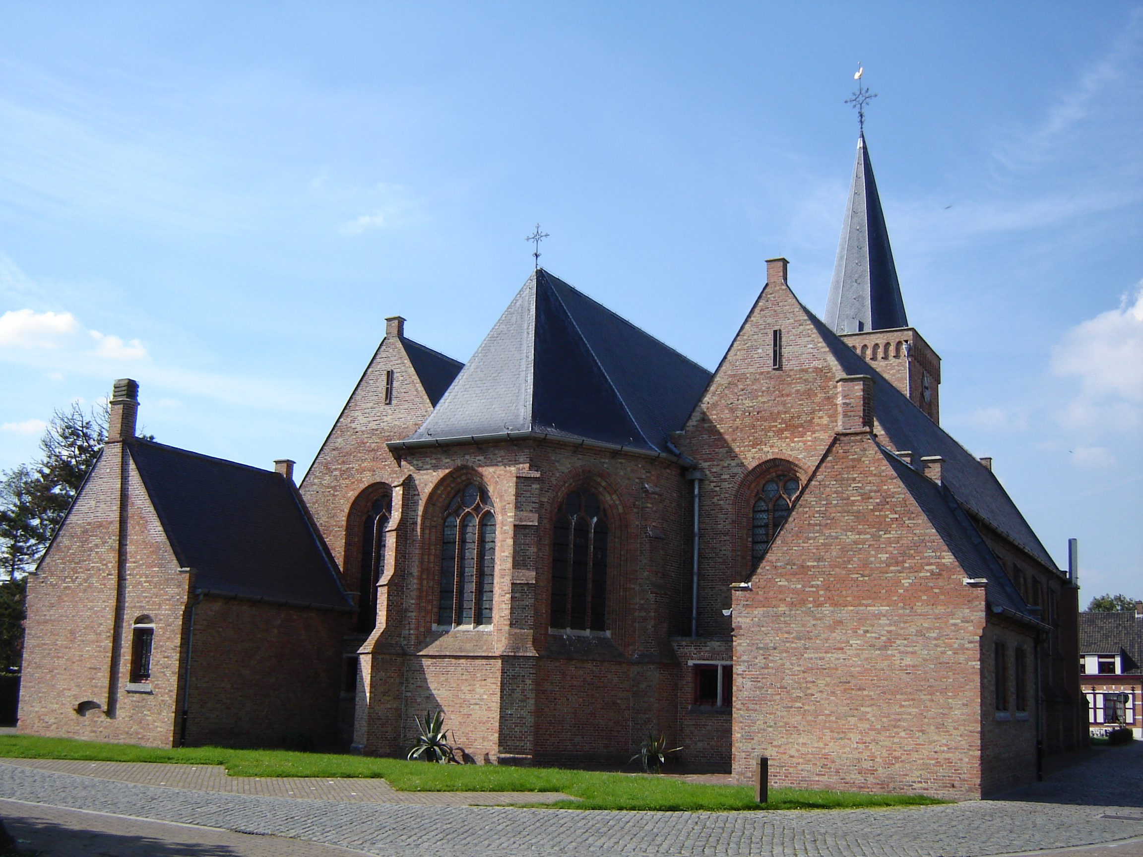 Church of Saint Peter in Oostveld. Oostveld, Oedelem, Beernem, West Flanders, Belgium